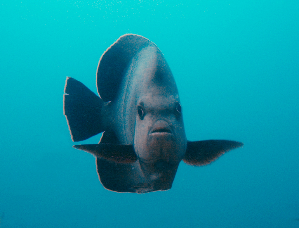 An Old Woman Angelfish (Pomacanthus rhomboides). Taken in Mozambique.